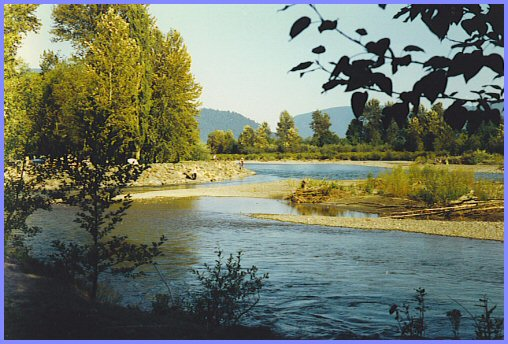 I am the author and owner of this image.